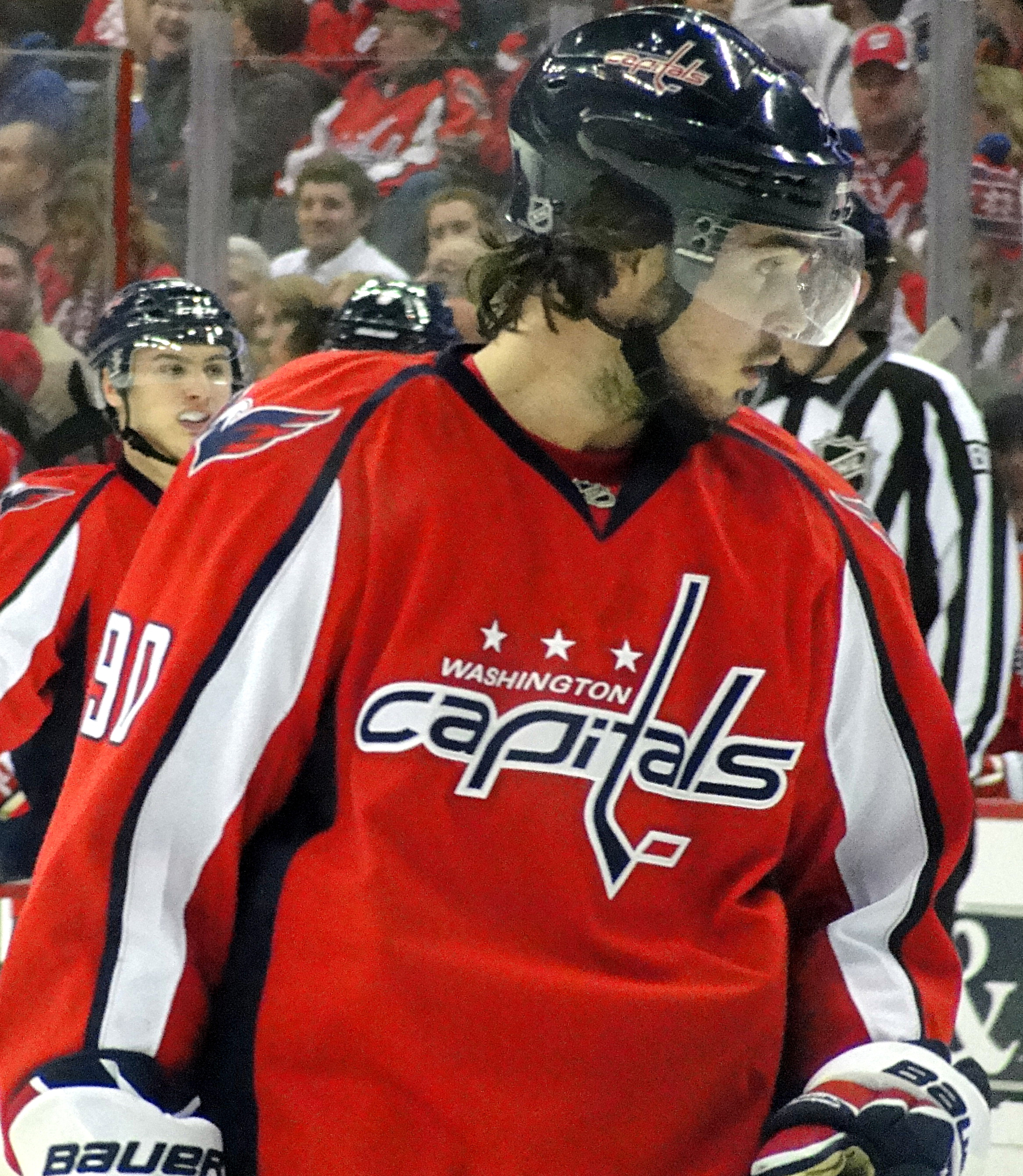 Washington Capitals forward Marcus Johansson during a January 11, 2012 game against the Pittsburgh Penguins at Verizon Center in Washington, D.C.